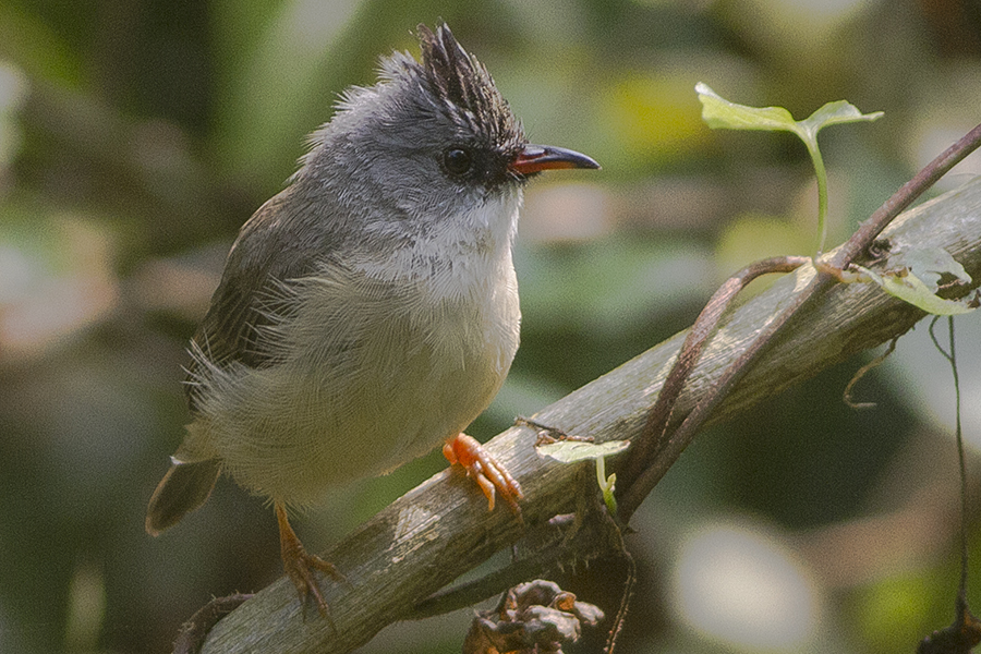 The species Black-chinned Yuhina had been photographed at Mahananda Wildlife Sanctuary during GoingWild's birding trip; at West Bengal, India on 05.11.2015.